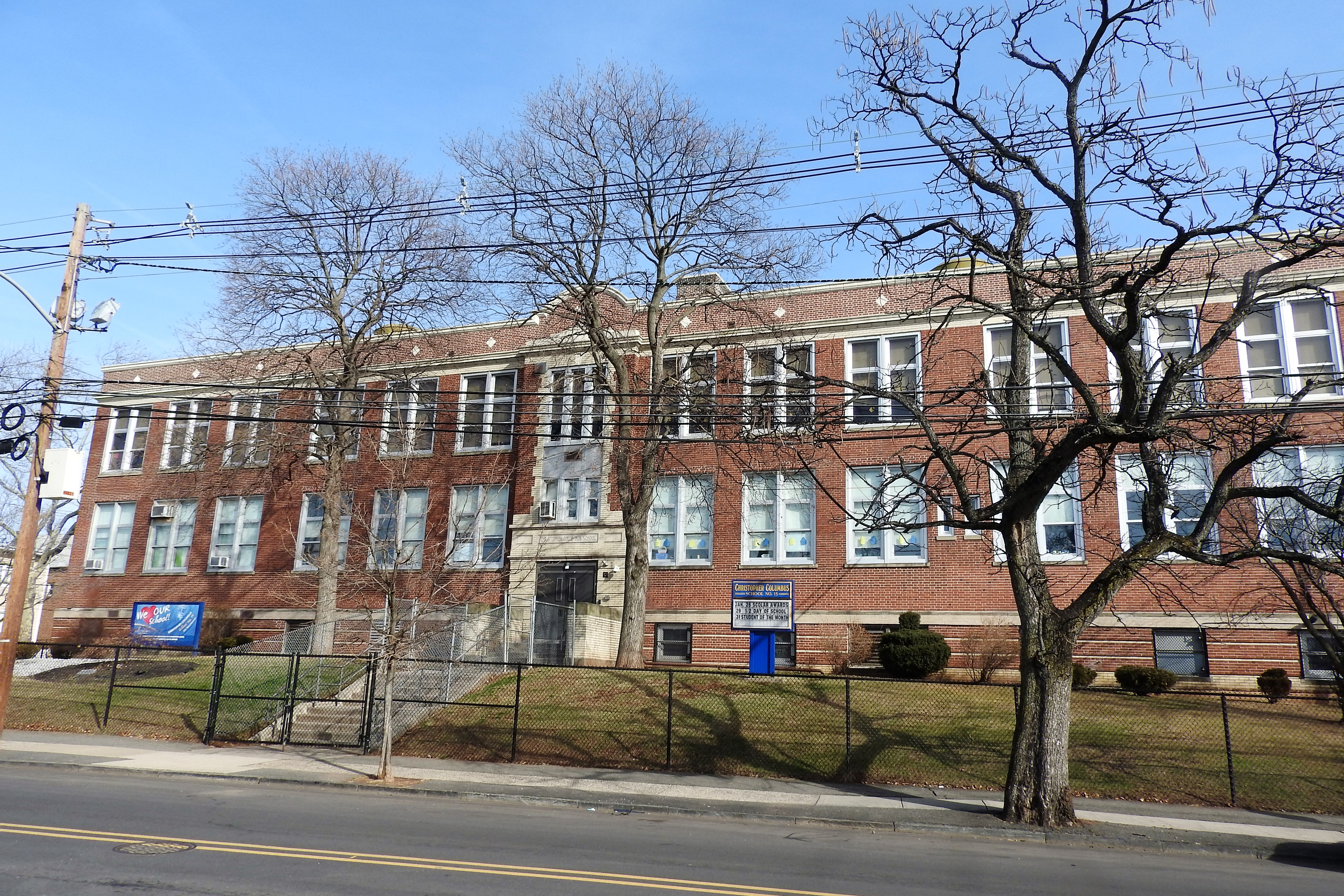 Looking east at front of school